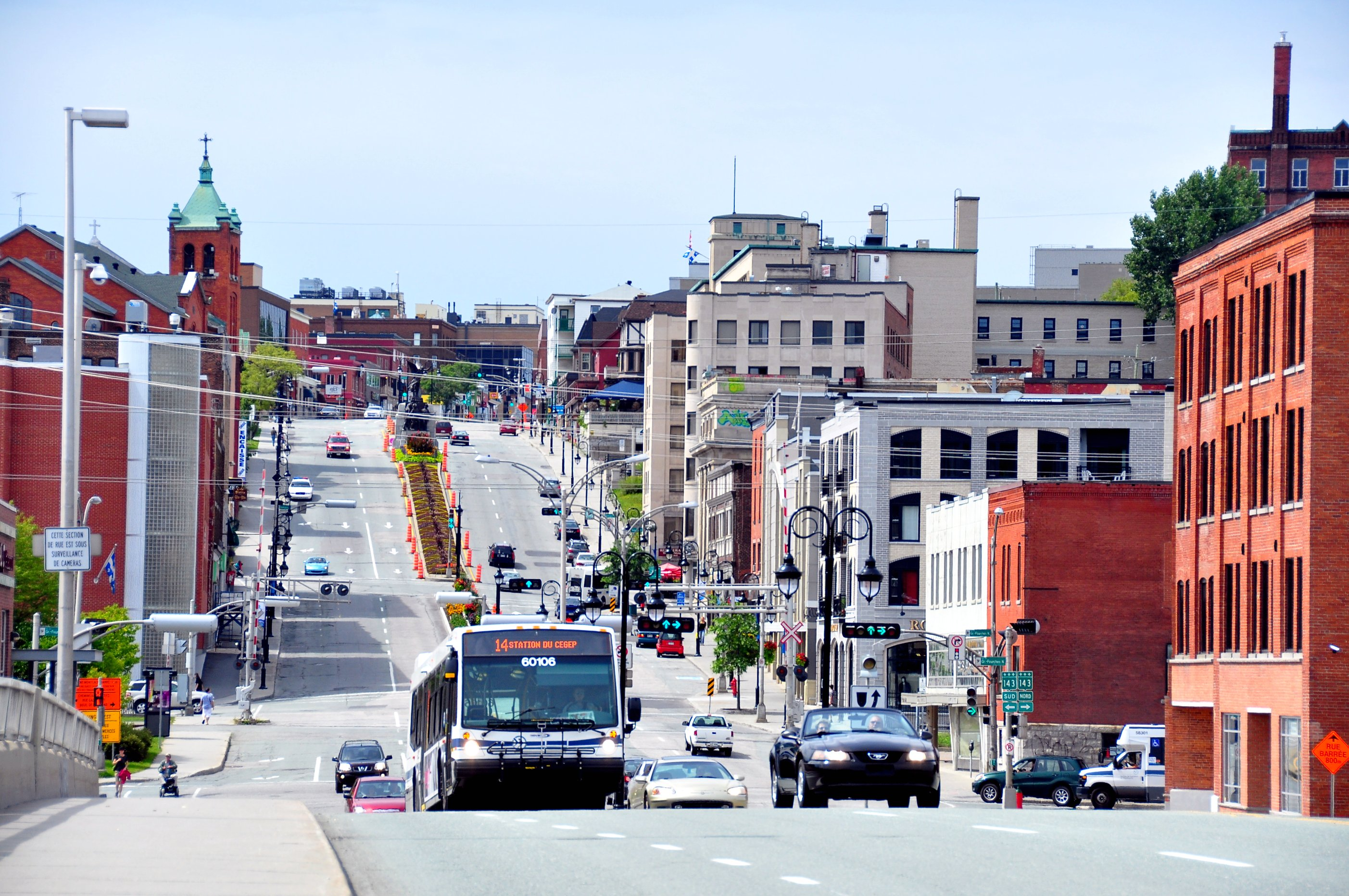 King at Highway 143 in Sherbrooke, Quebec